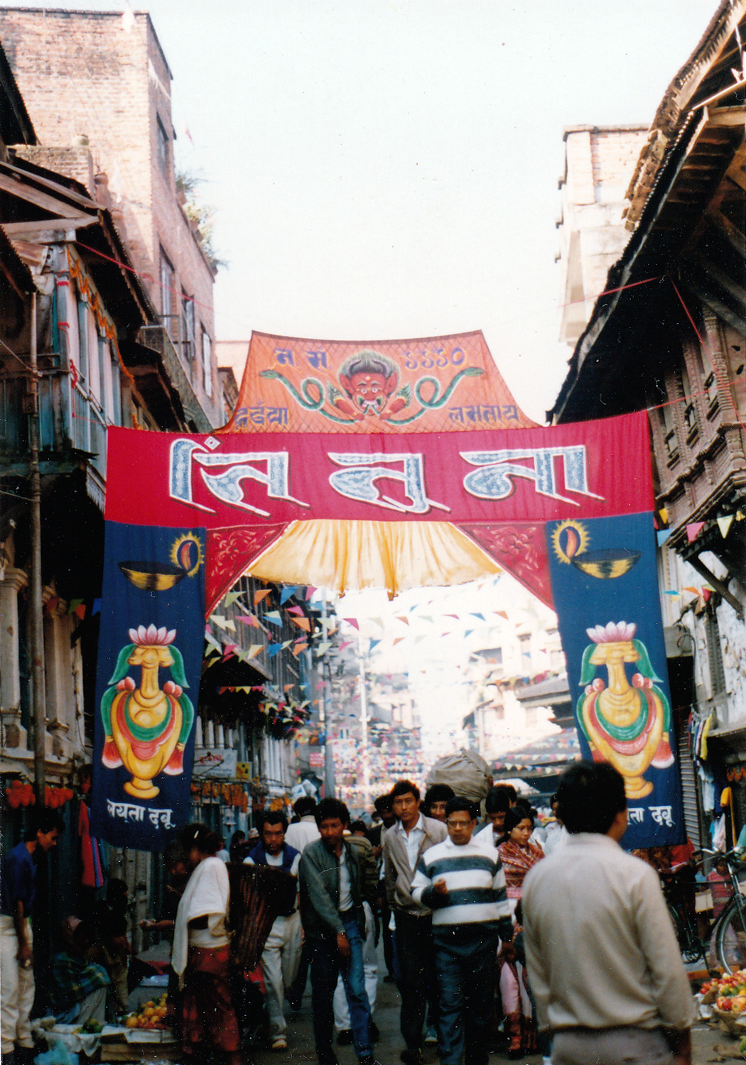 New Year bunting over a street in Kathmandu saying "Bhintuna" which means "best wishes" in Nepal Bhasa.